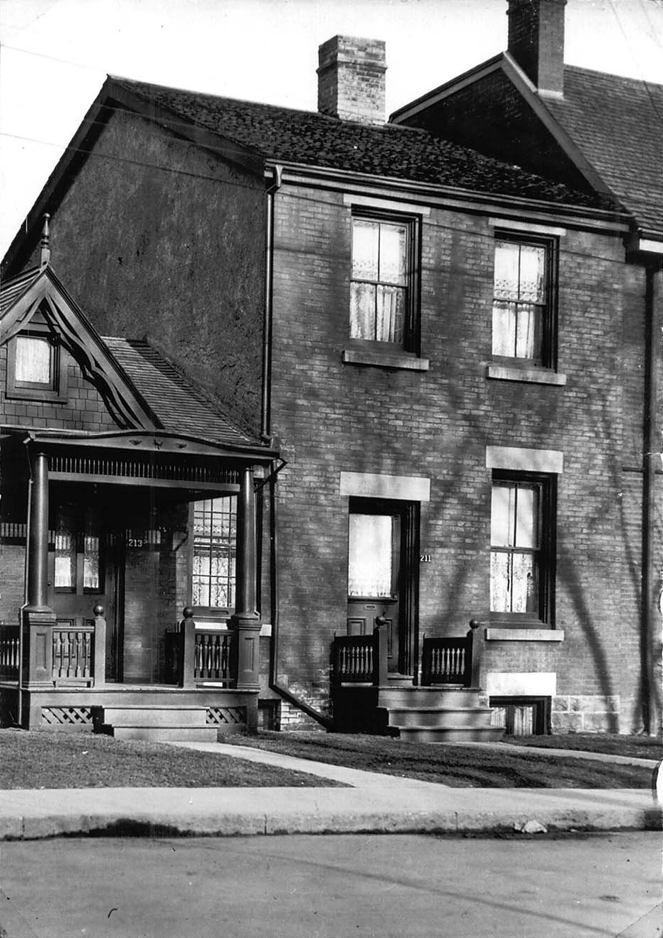 Mary Pickford's birthplace, 211 University Avenue. Currently the location of the Hospital for Sick Children.(Toronto, Canada)